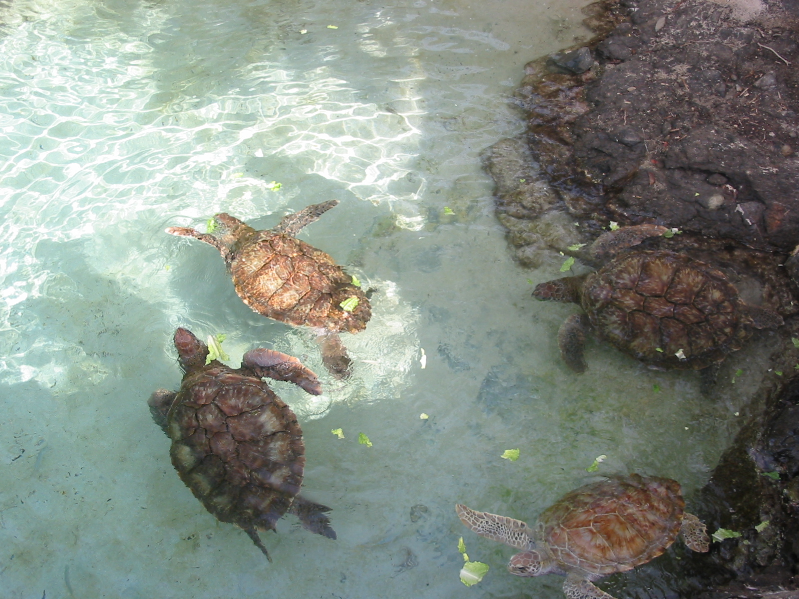 This photo was taken at Coral World, in St. Thomas, USVI. It shows a feeding of the sea turtles.